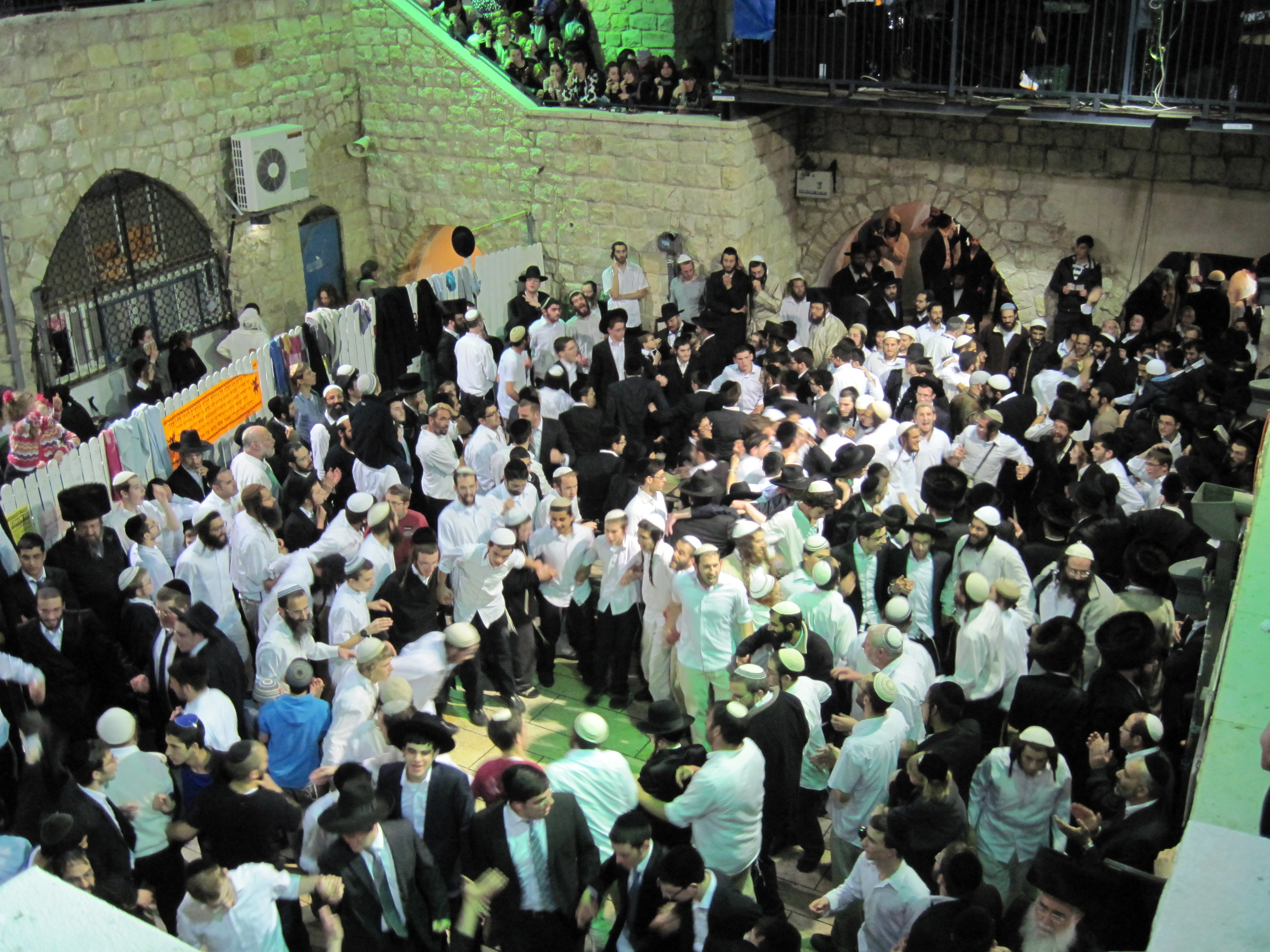 Dancing in Rabbi Shimon Bar Yochay grave, 7th Adar 2014